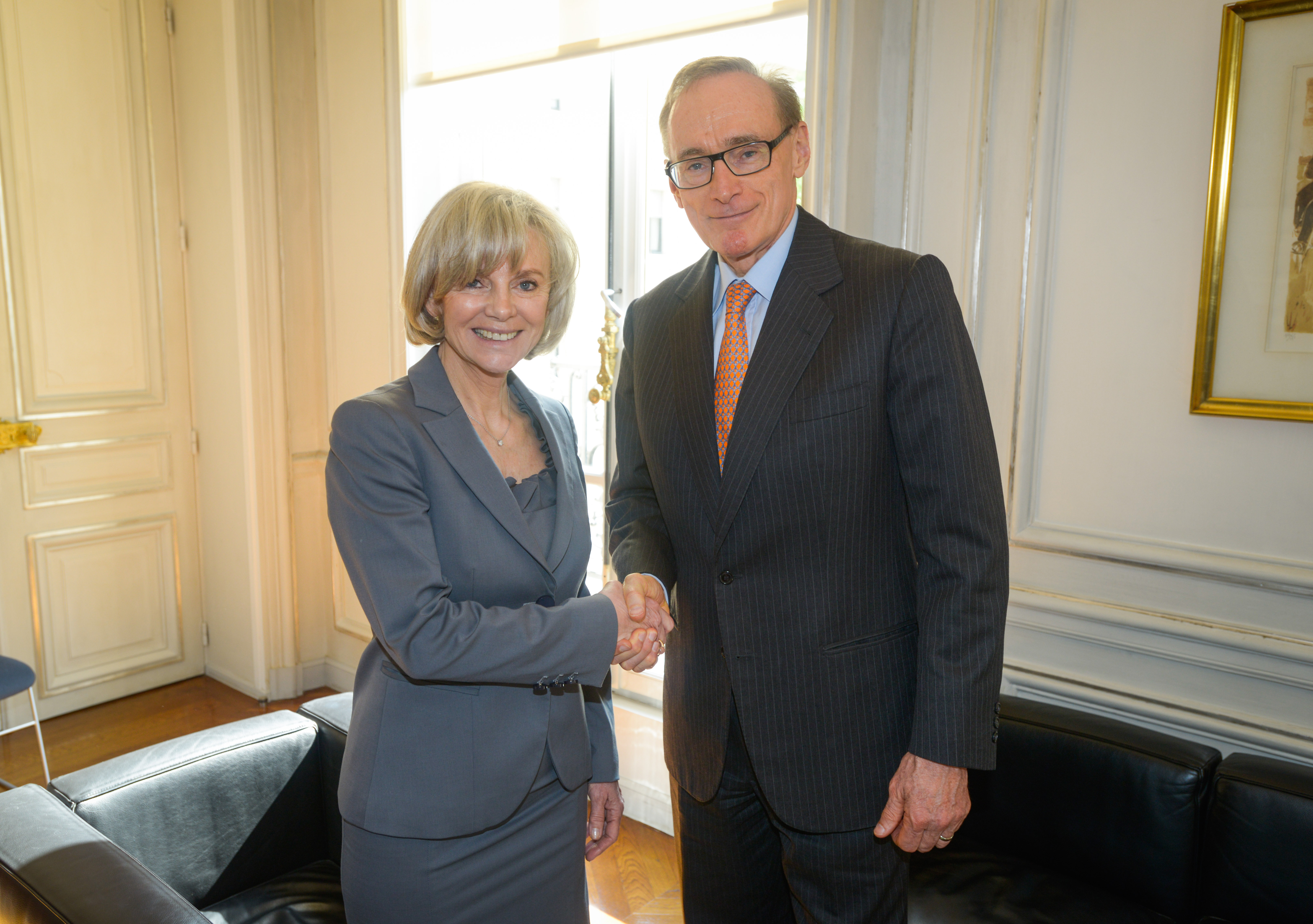 Minister for Foreign Affairs, Senator the Hon. Bob Carr, meets the chair of the Foreign Affairs Committee, Ms. Élisabeth Guigou, at the French National Assembly in Paris